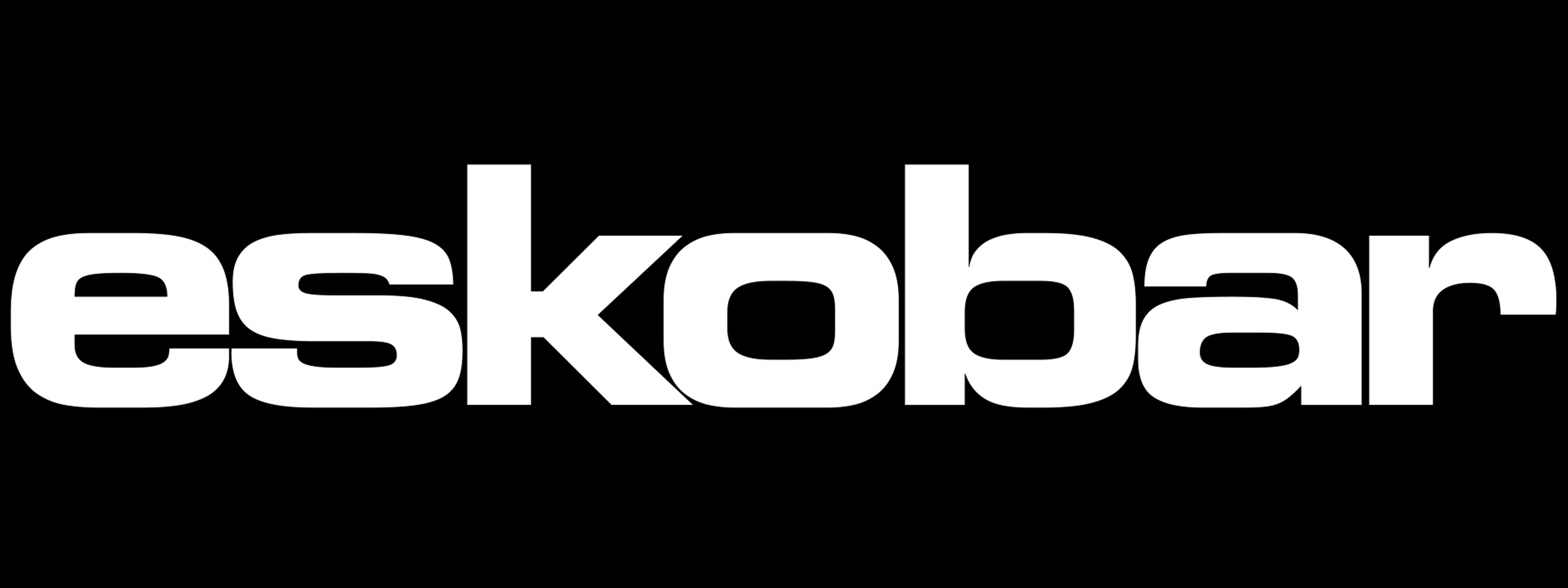 This is the official Eskobar logo.